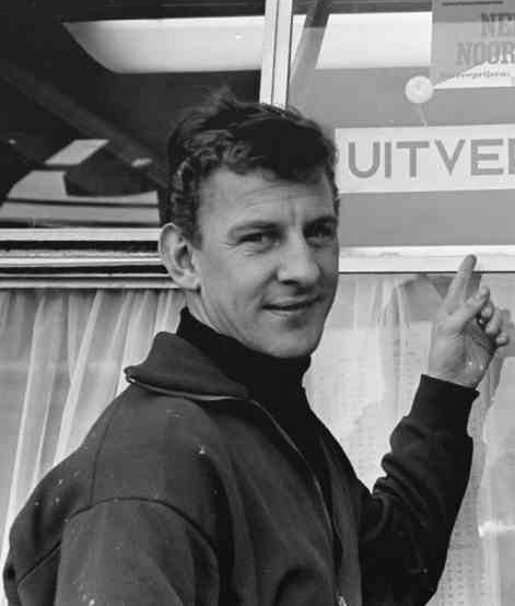 Dutch footballer Co Prins on stadium of Feyenoord